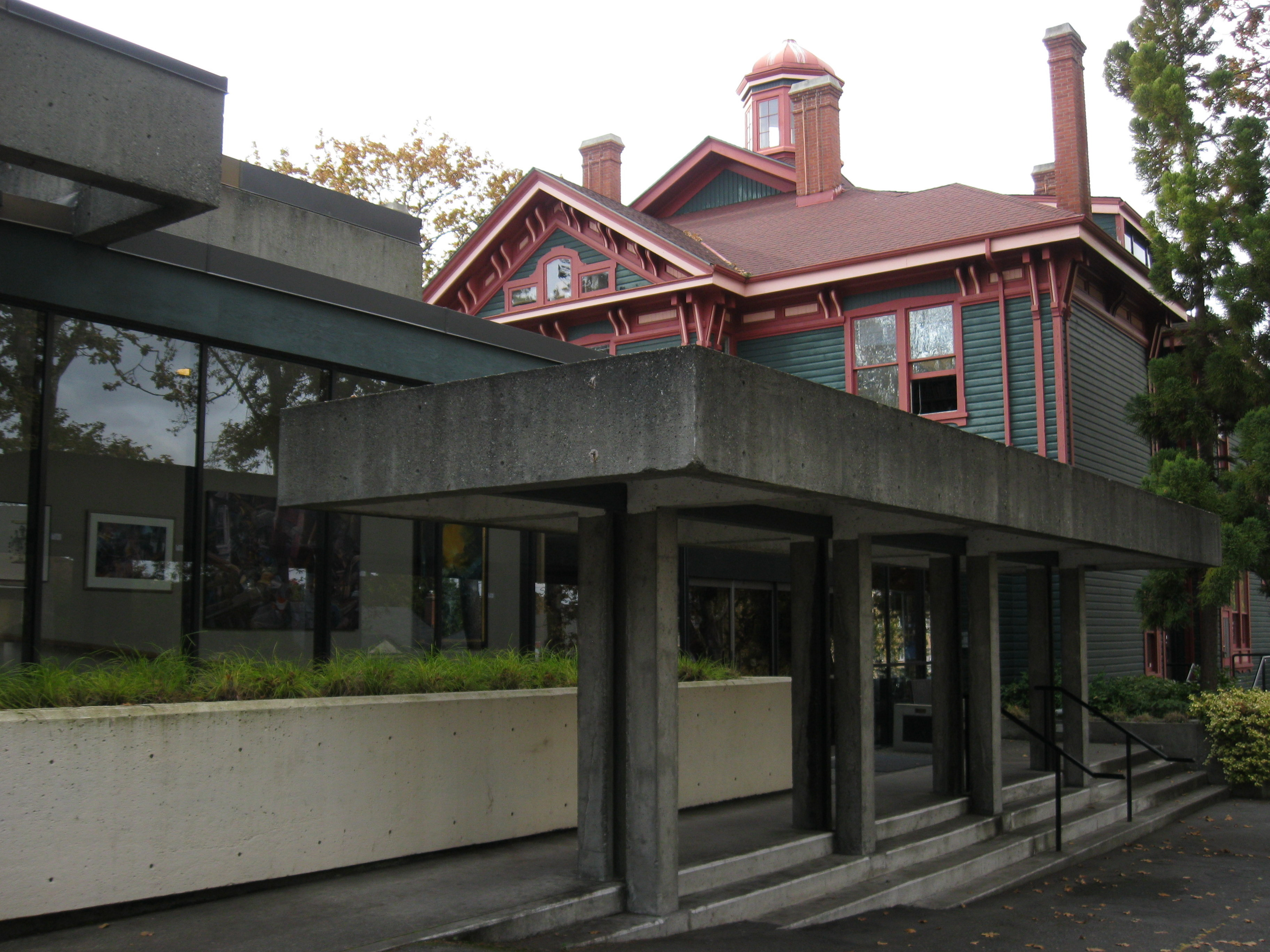 Victoria Art Gallery front. READ INFO IN PANORAMIO DESCRIPTION